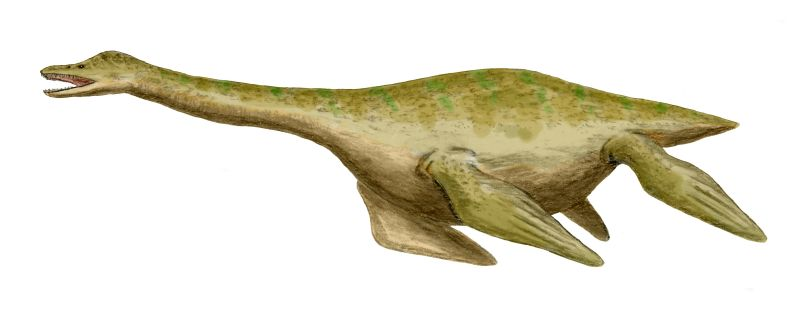 Cryptoclidus eurymerus, a plesiosaur from the Middle Jurassic of Europe, pencil drawing